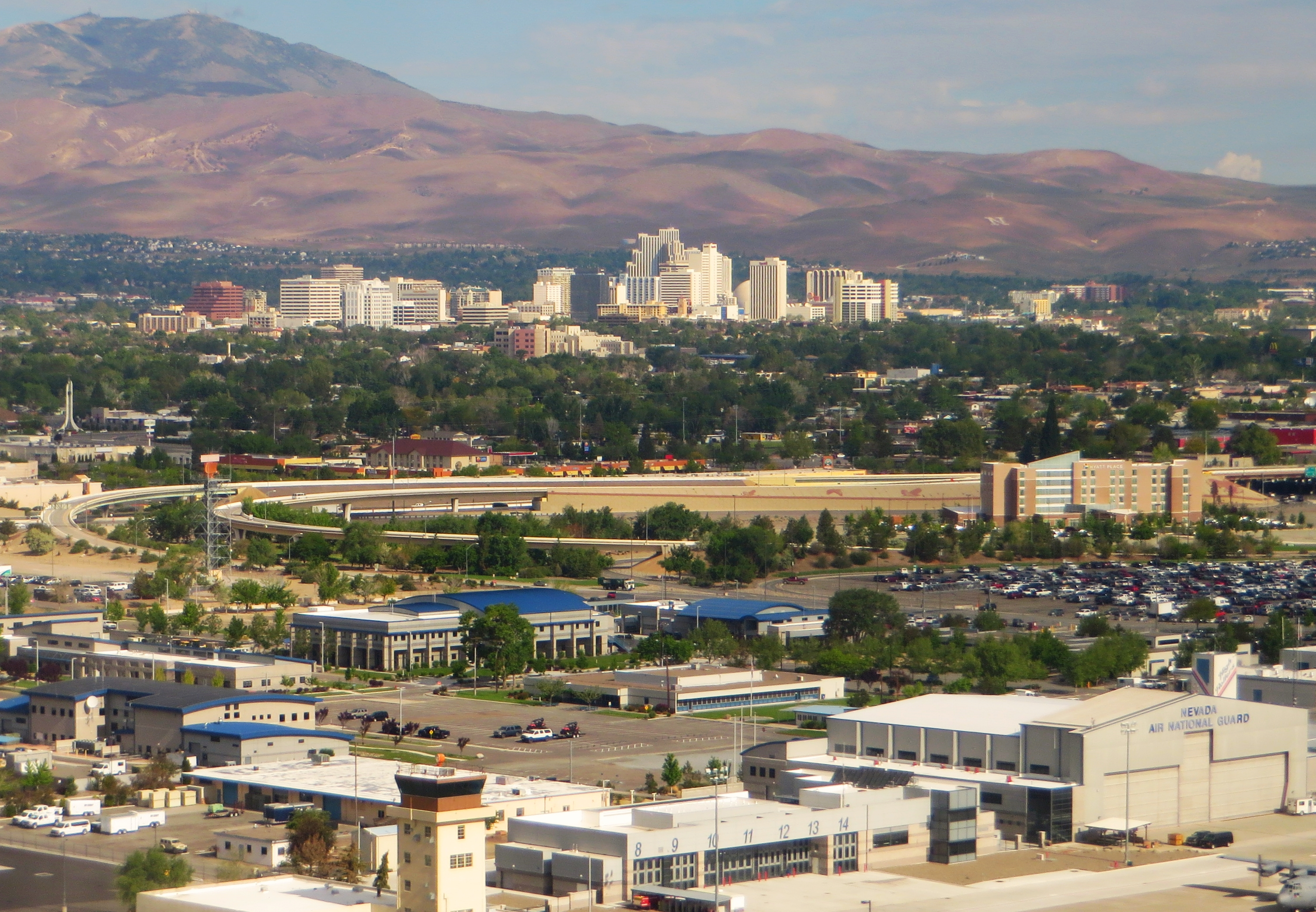 Reno is a city in the US state of Nevada. Known as "The Biggest Little City in the World", Reno is famous for its casinos and as the birthplace of Caesars Entertainment Corporation. The city is situated in the northwestern part of the state and is the county seat of Washoe County. Reno is the most populous Nevada city outside of the Las Vegas metropolitan area. As of the 2010 census, the city had a population of 225,221 making it the fourth most populous city in the state after Las Vegas, Henderson, and North Las Vegas. The city sits in a high desert at the foot of the Sierra Nevada and its downtown area (along with Sparks) occupies a valley informally known as the Truckee Meadows. Reno is part of the Reno–Sparks metropolitan area which consists of all of both Washoe and Storey counties and has a 2013 estimated population of 437,673. making it the second largest metropolitan area in Nevada.